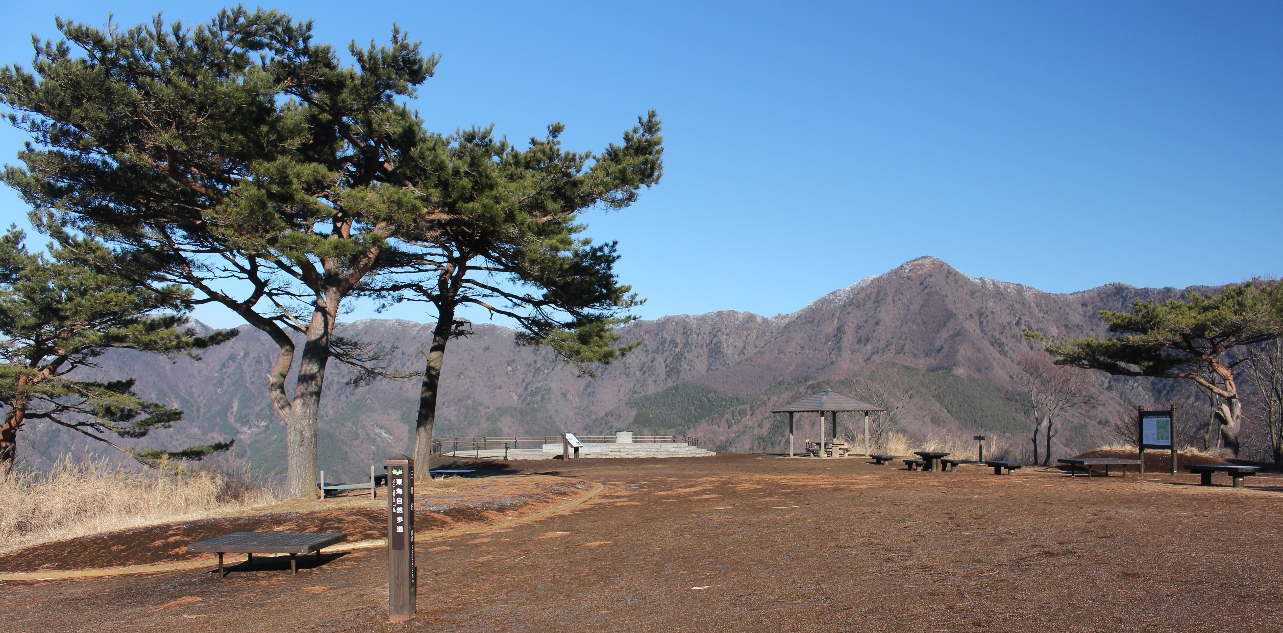 Mount Oni (Misaka Mountains) seen from Sankodai (Tōkai Nature Trail) on Mount Ashiwada in Yamanashi prefecture, Japan.